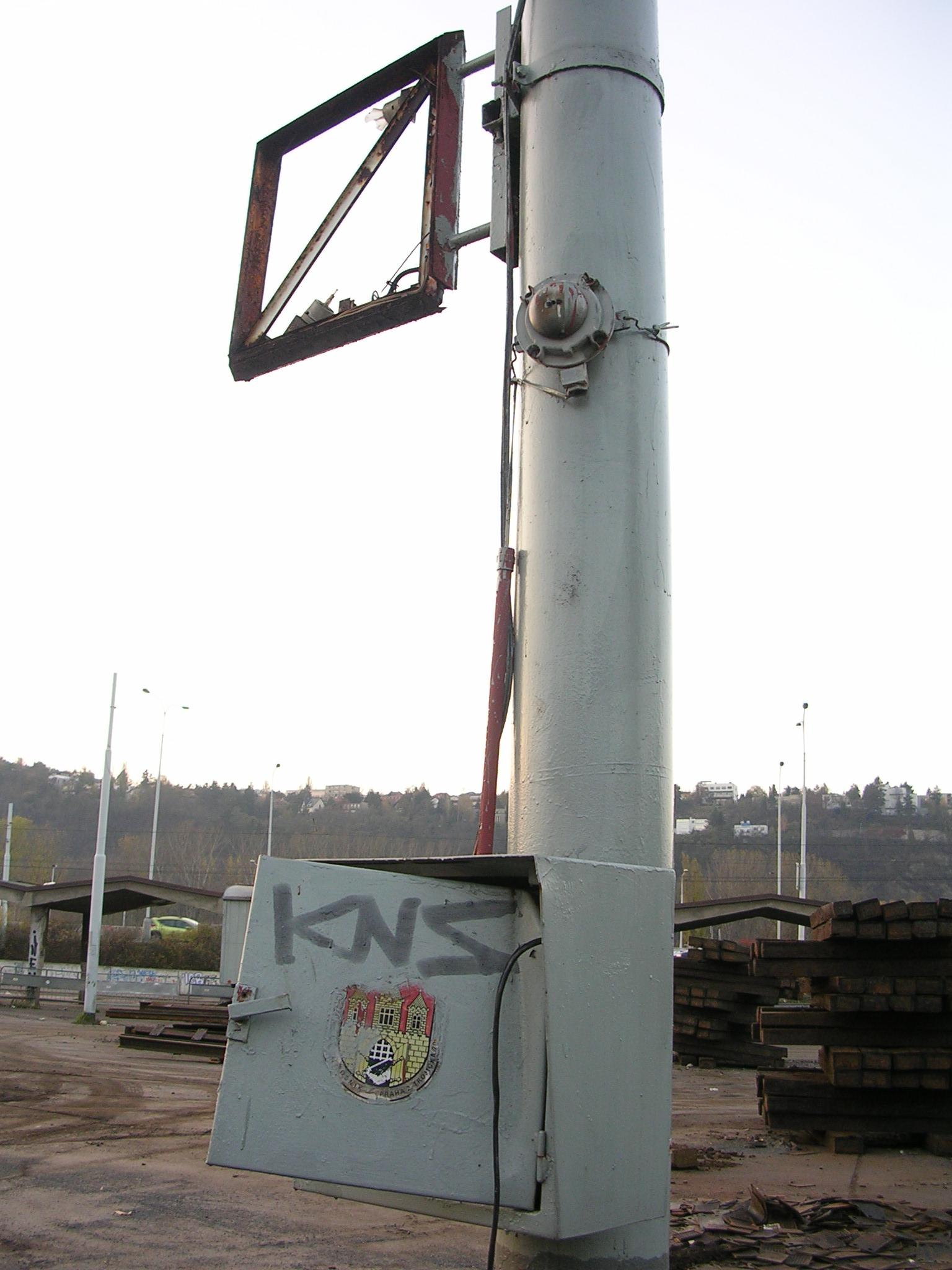 Braník, Prague. Former taxicab stand near train station Praha-Braník.